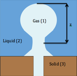 Rising Bubble from Orifice